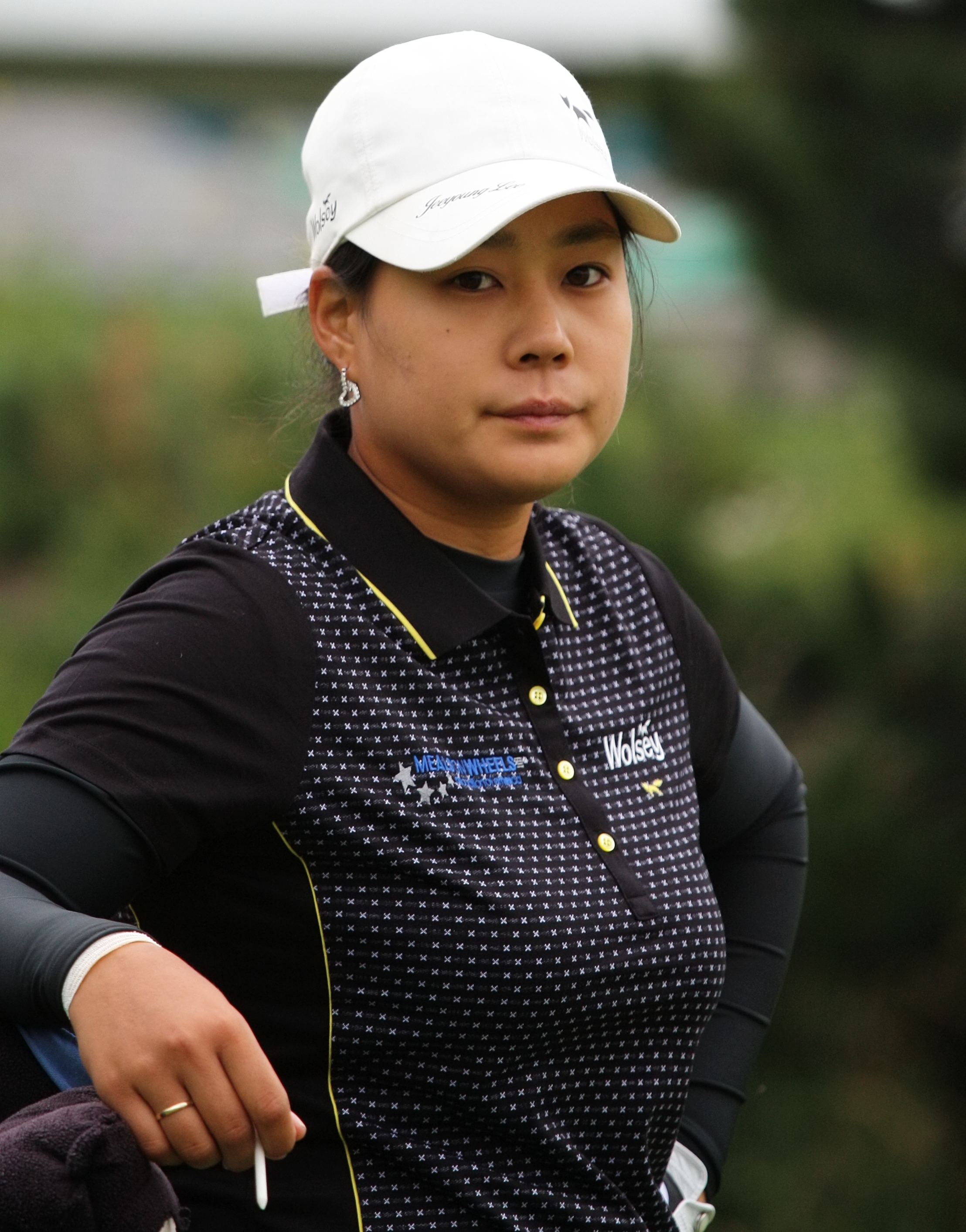 LYTHAM ST ANNES, UNITED KINGDOM - JULY 29: Jee Young Lee of South Korea on the 12th tee during third practice round before 2009 Ricoh Women's British Open held at Royal Lytham & St Annes on July 29, 2009 in Lytham St Annes, England. (Photo by Wojciech Migda)